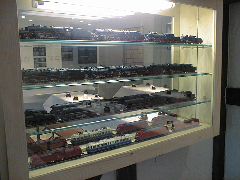 Exposition at 1. May 2000 in the Egge museum in Altenbeken / Germany